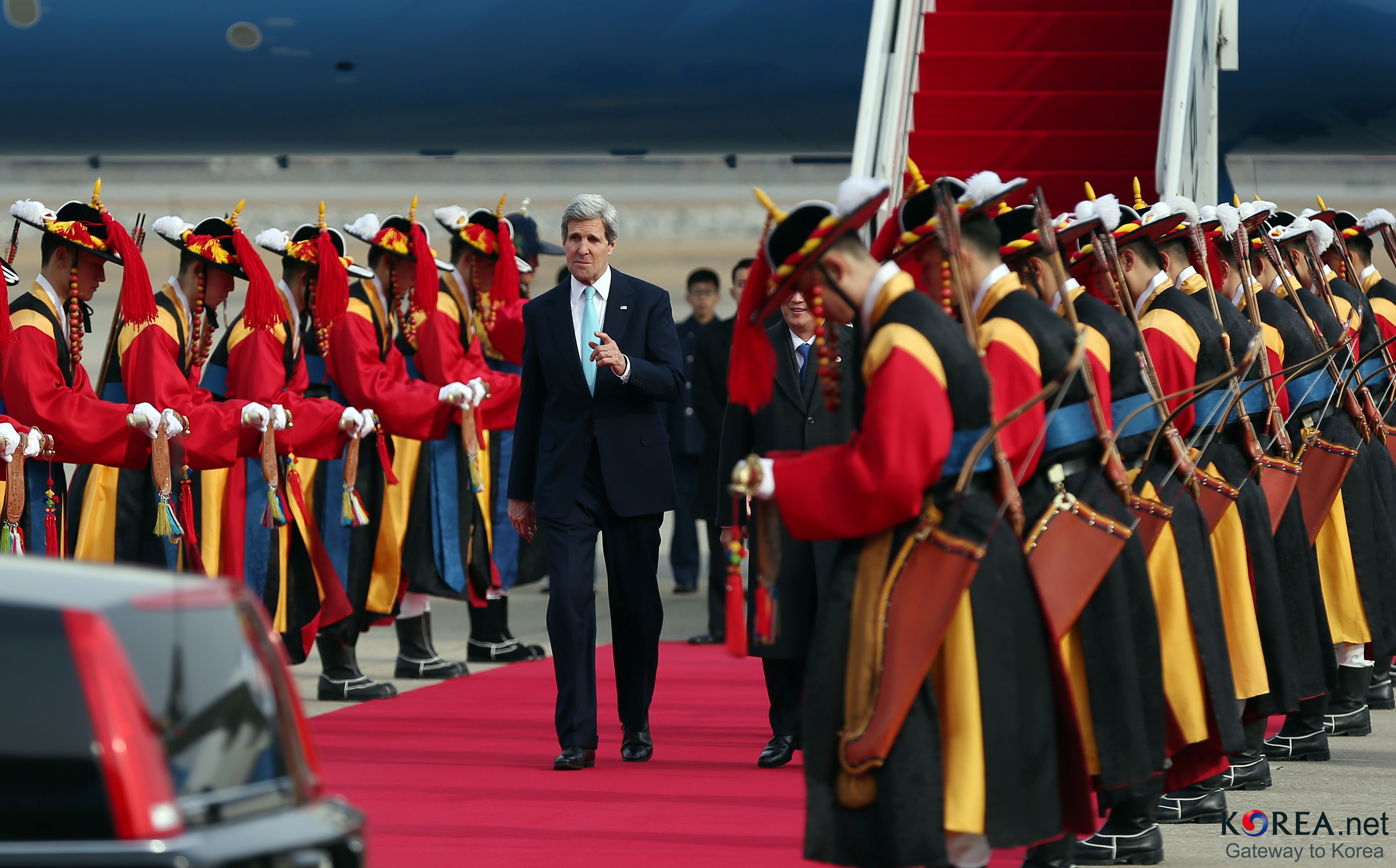 U.S. Secretary of State John Kerry inspects the honor guard after arriving at Seoul Airbase on February 13.